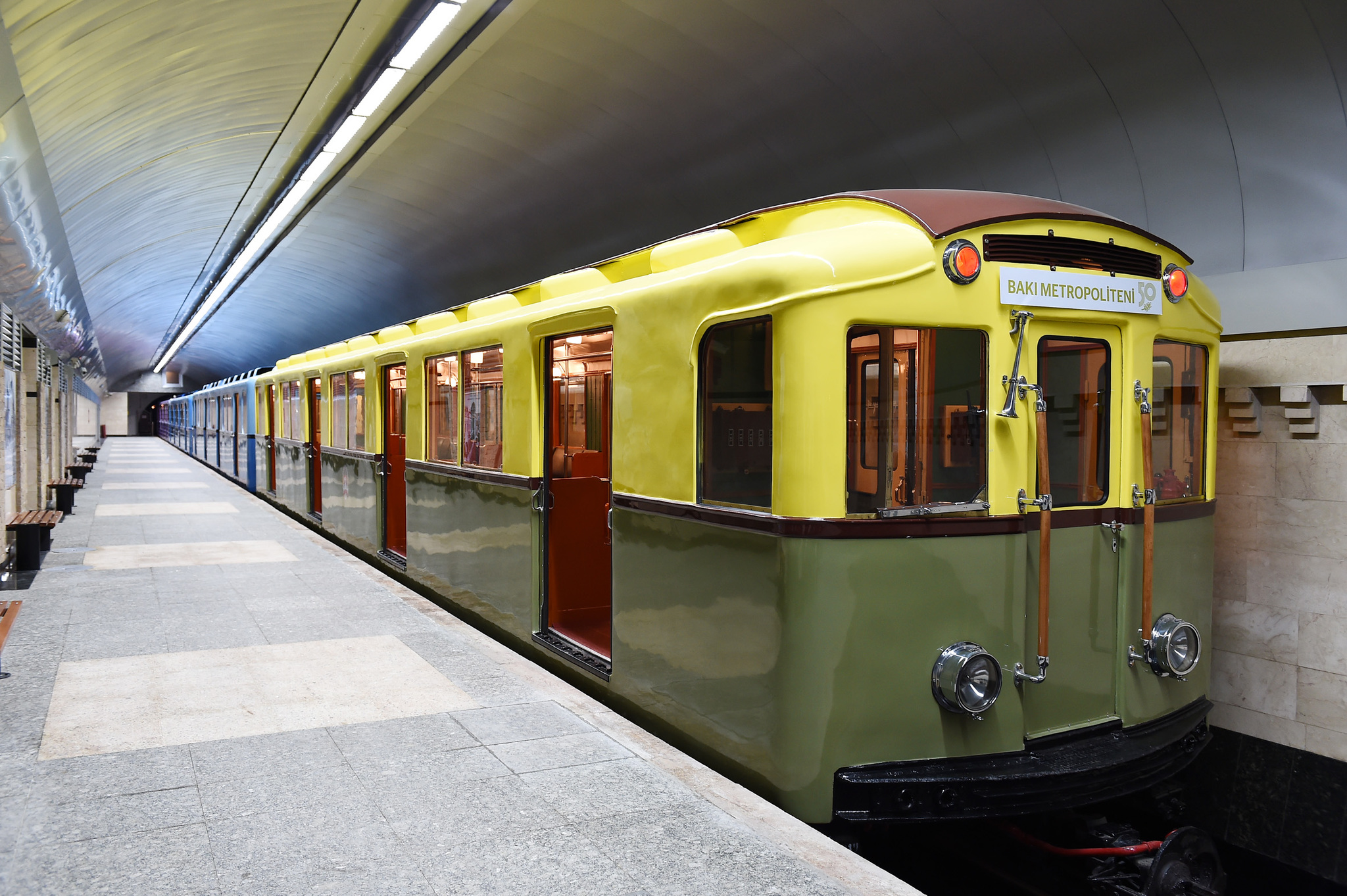 Subway car A № 1001 at Icheri Sheher station in Baku Metro